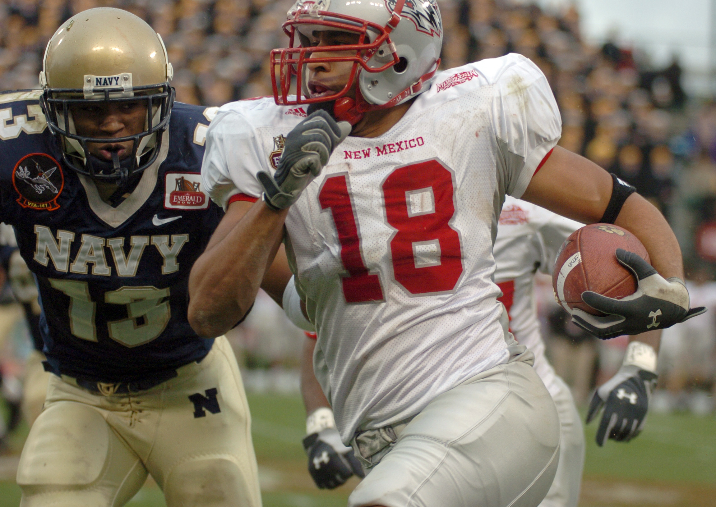 U.S. Naval Academy Midshipman safety Hunter Reddick chases down New Mexico wide receiver Hank Baskett.